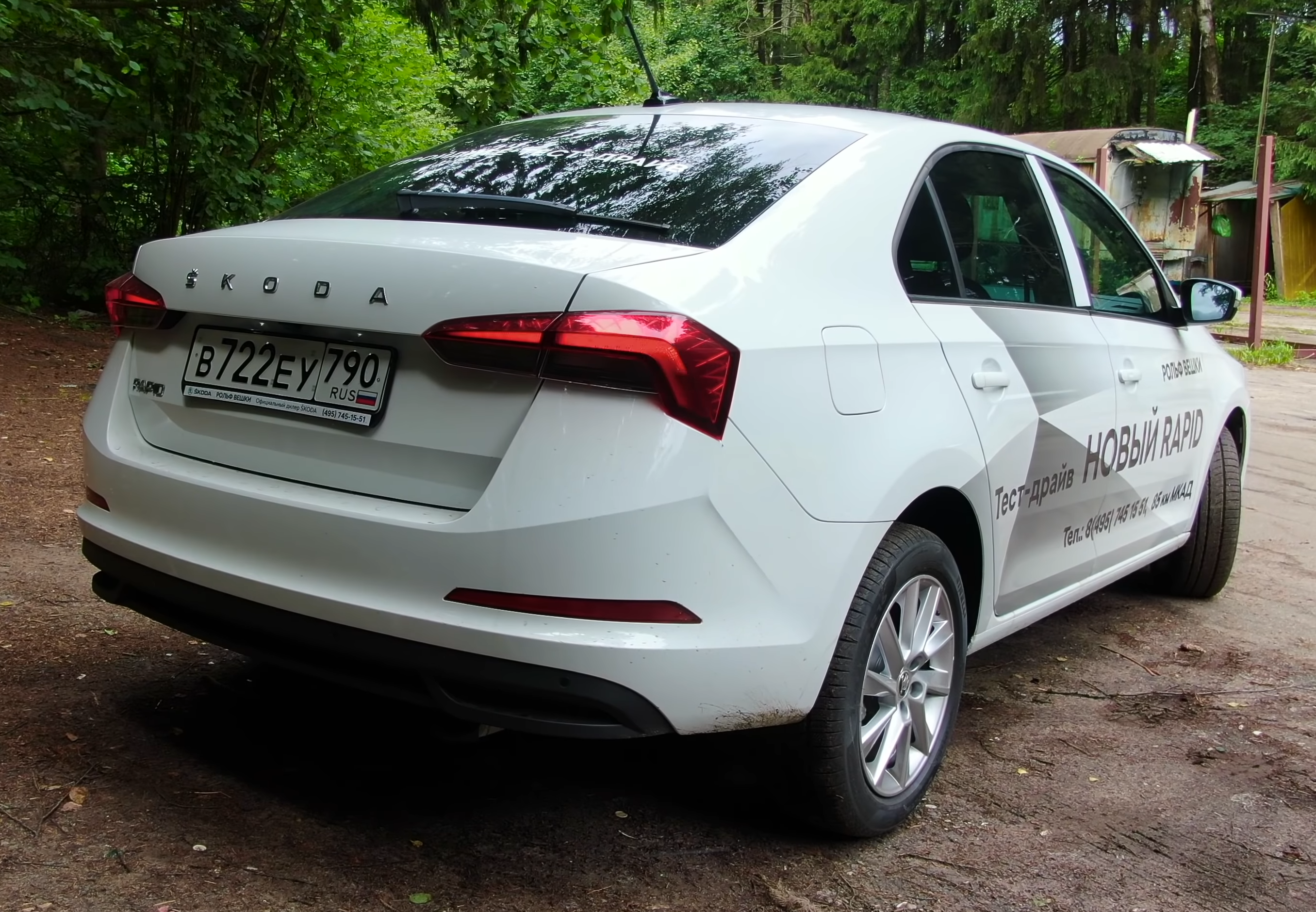 Škoda Rapid (2020 facelift, Russia) rear view